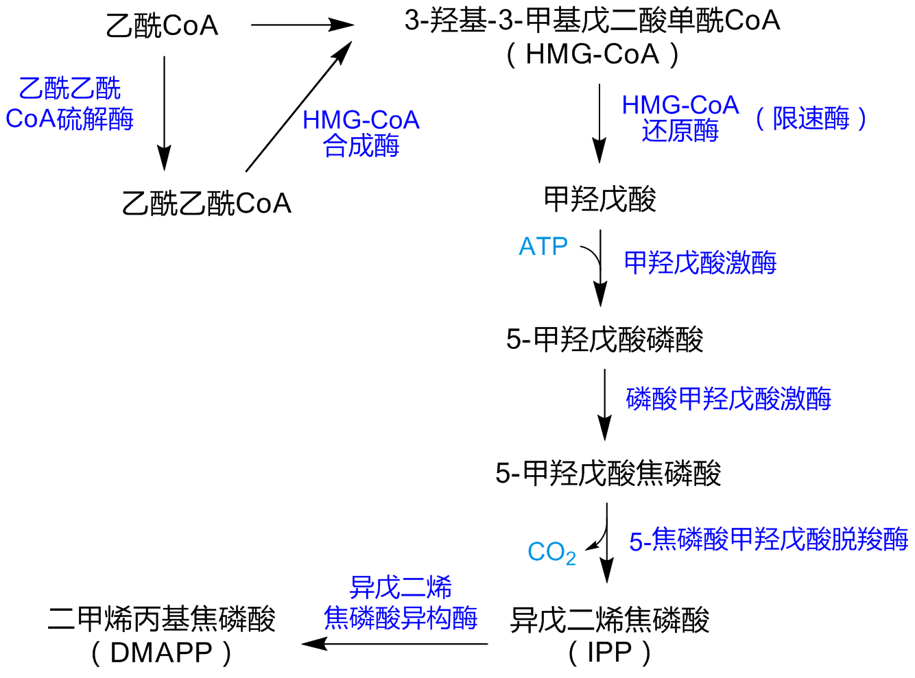 Mevalonate pathway in Chinese